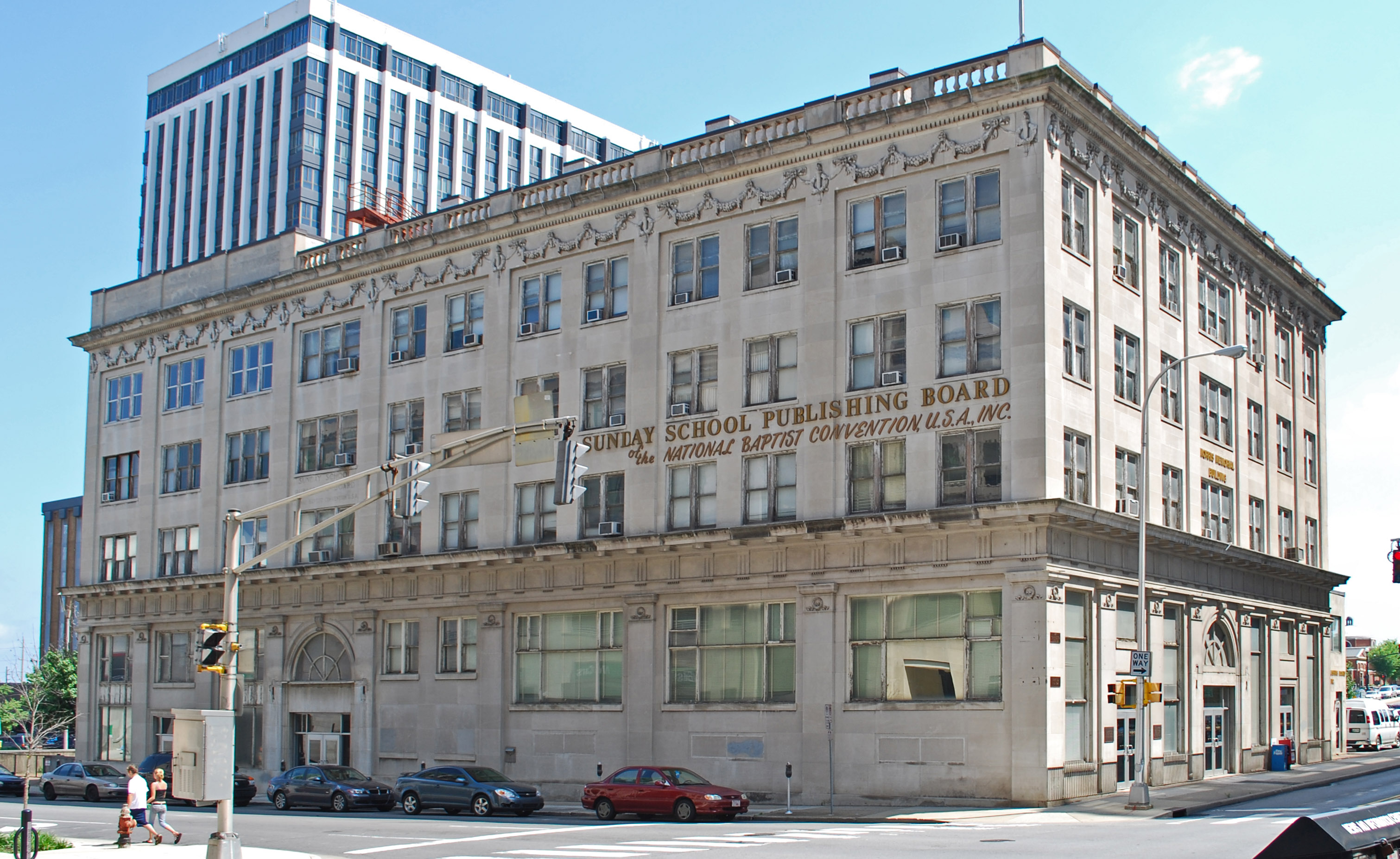 Morric Memorial Building, Nashville TN